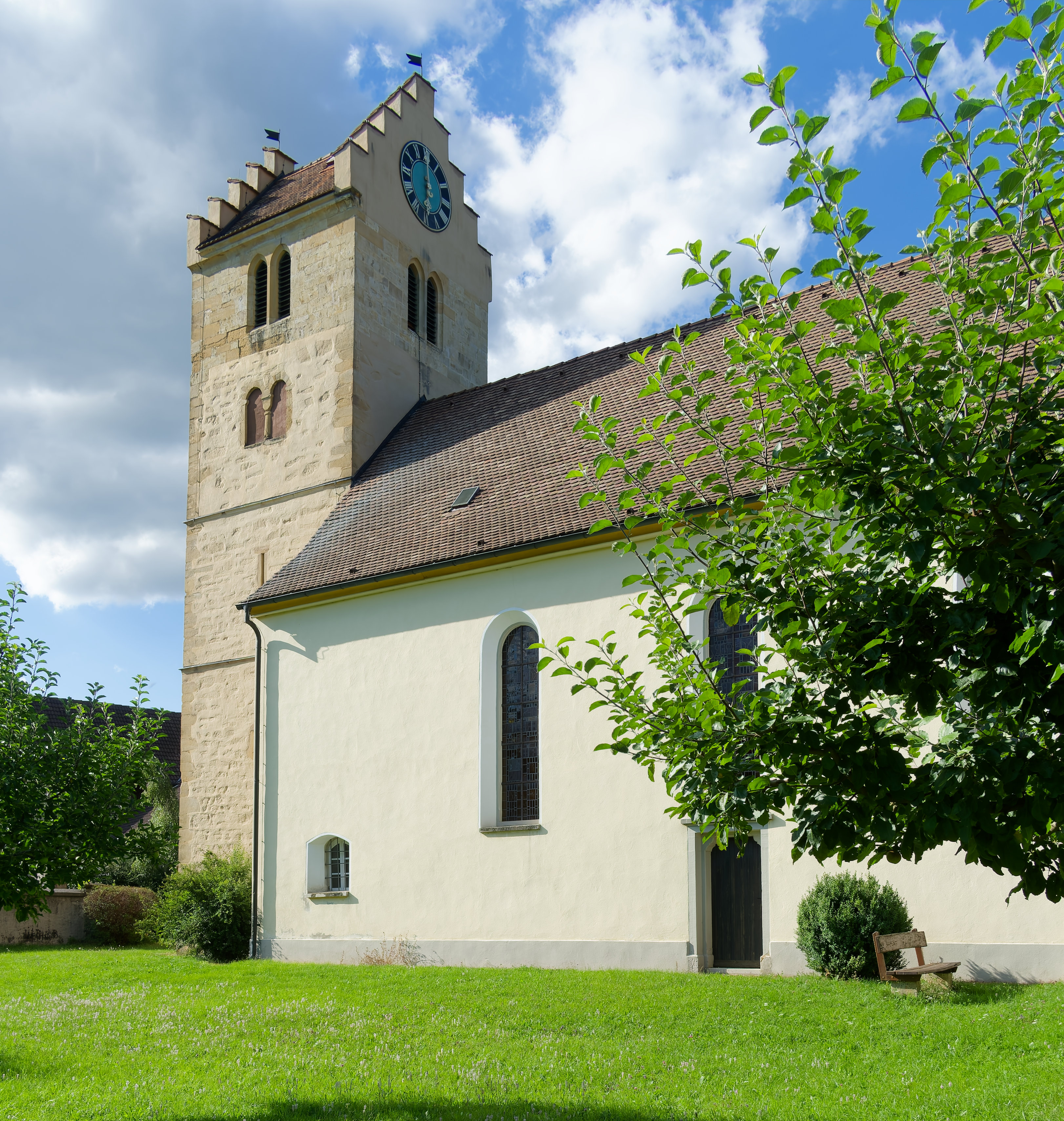 Church St James, Engen-Welschingen, church with strange romanic sculptures, Baden-Württemberg, Germany